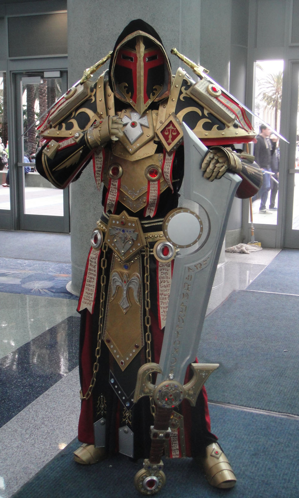 photo © 2012 If you're interested in higher resolution versions of my images, contact me via my profile page.